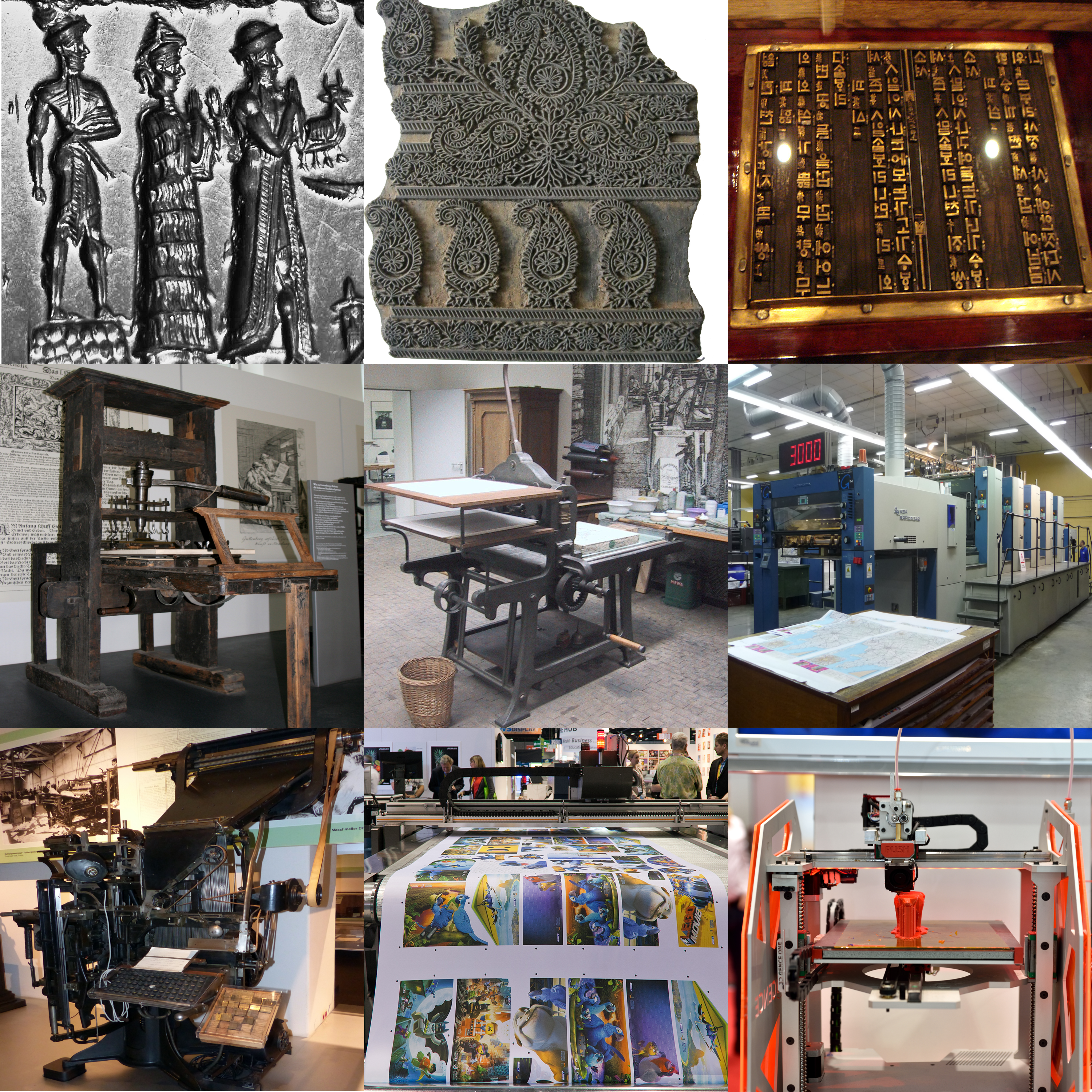 A collage of printing. Derived from: File:Cylinder Seal, Old Babylonian, formerly in the Charterhouse Collection 09.jpg File:Textildruckmodel - Indien um 1900.jpg File:Korean moveable typeset form 1447.jpg File:Handtiegelpresse von 1811.jpg File:Litography press with map of Moosburg 02.jpg File:KBA Press IGN.JPG File:Linotype Simplex 1895.JPG File:Large format digital printer.jpg File:3D Drucker – CeBIT 2016 02.jpg